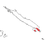 Image showing the extension of the bughotu language on the island of Santa Isabel